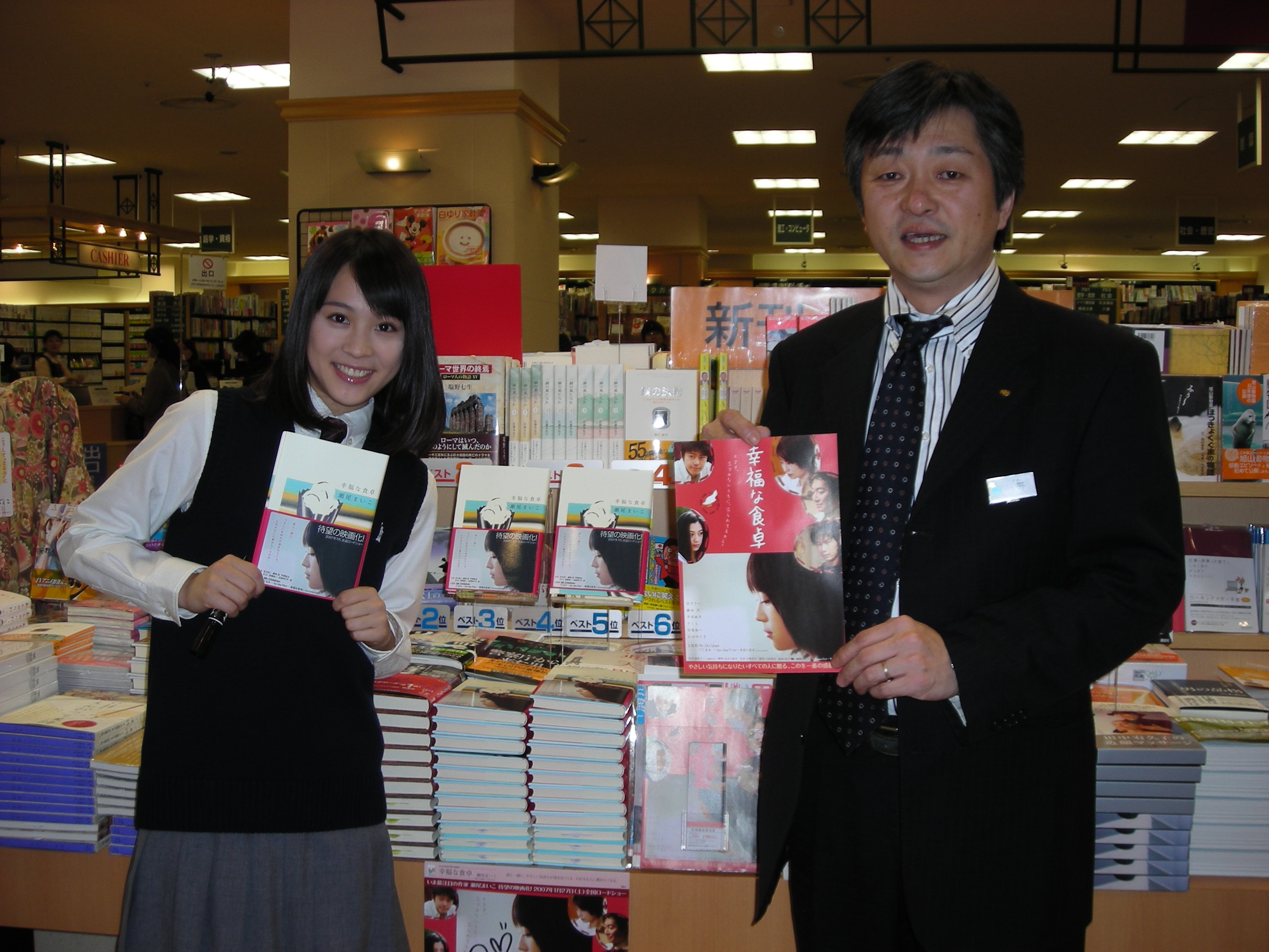 Kii Kitano promoting a novel.